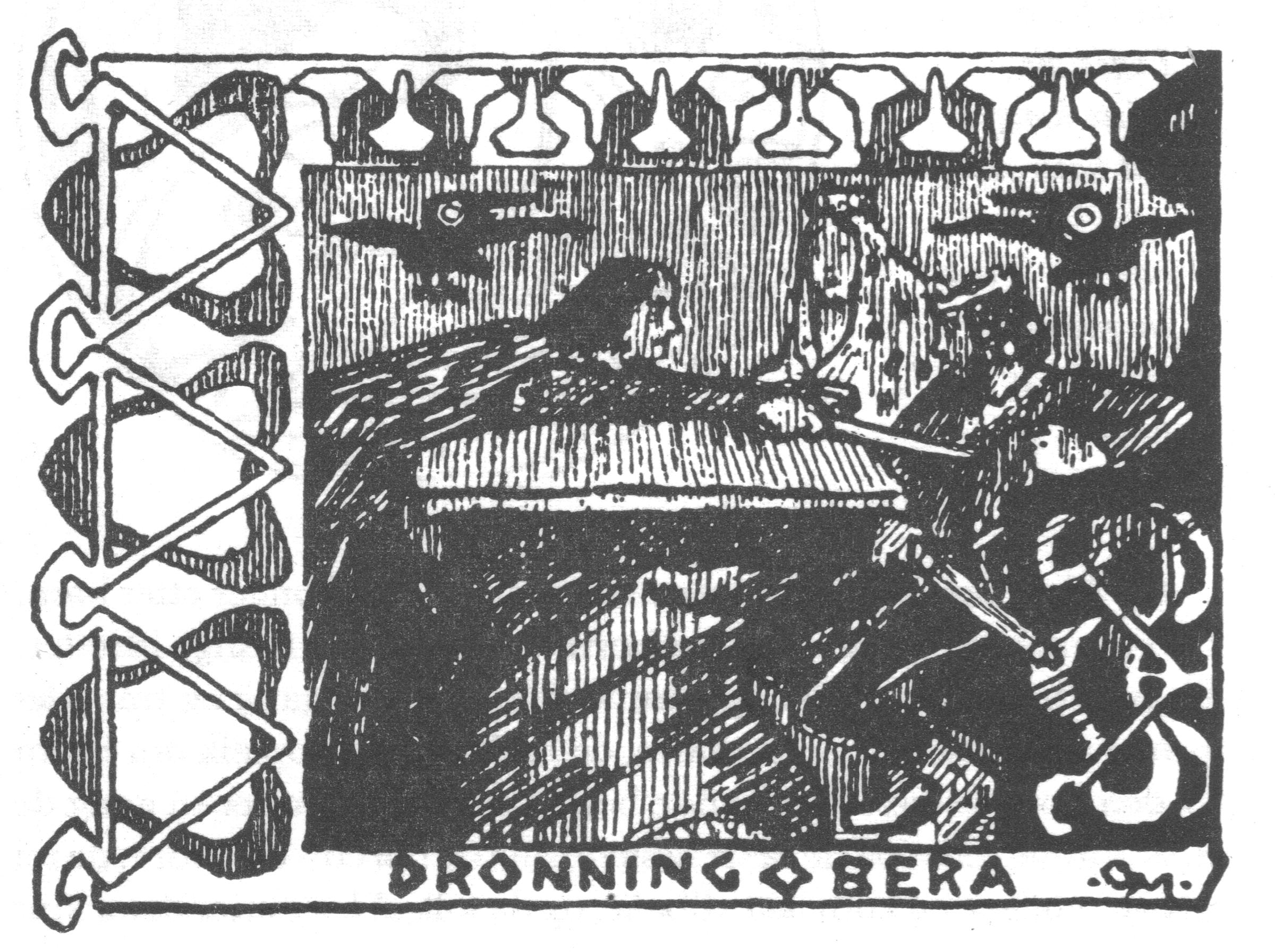 Gerhard Munthe: Illustration for Ynglingesaga. Snorre 1899-edition. 12 Dronning Bera.